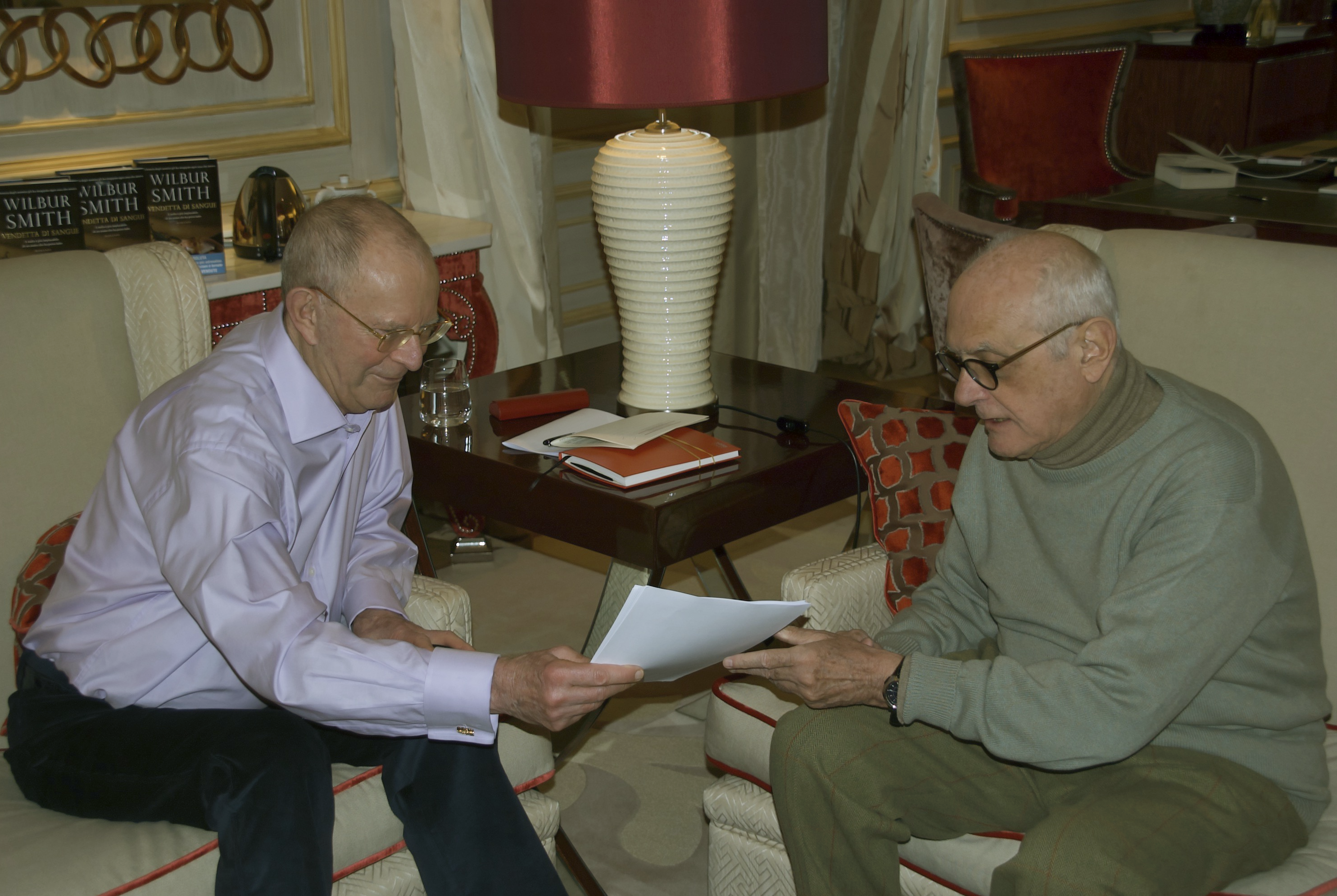 Italian Writer Mario Biondi with Wilbur Smith in Milano, January 29, 2013